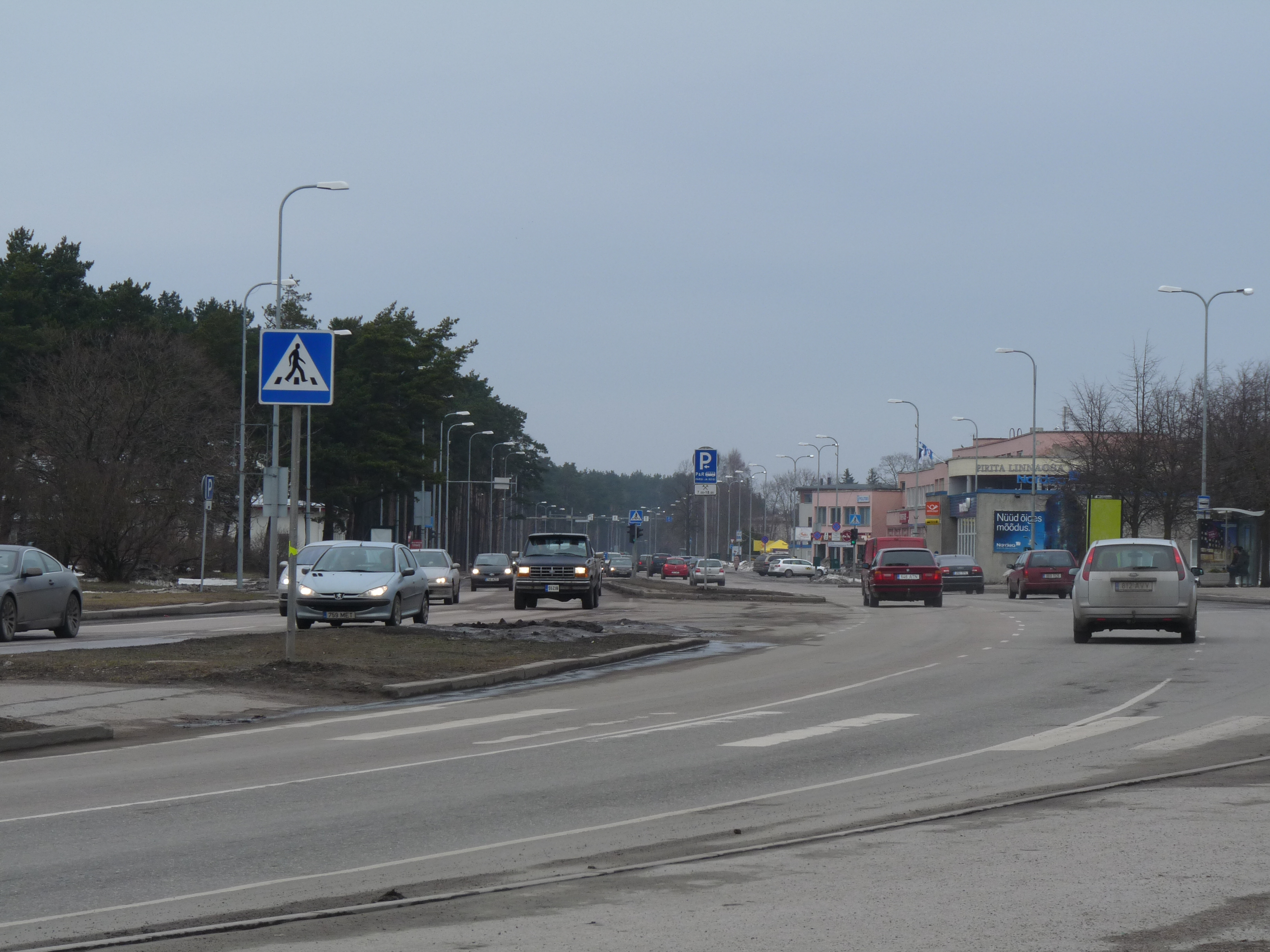 Merivälja street in Tallinn